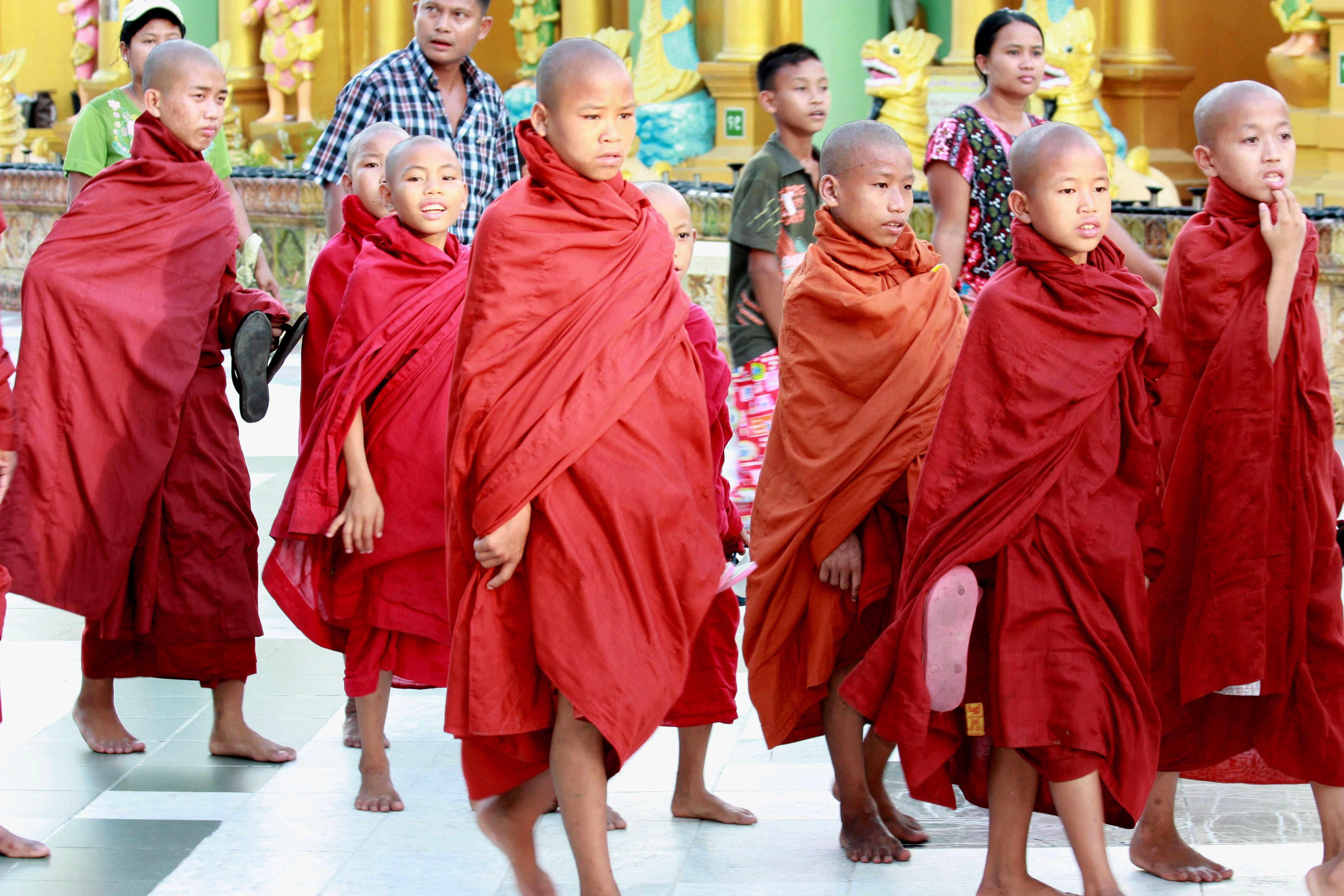 All the day any novice's Monk come here for célébration and praying Buddha It is the most important duty of all Burmese parents to make sure their sons are admitted to the Buddhist Sangha by performing a shinbyu ceremony once they have reached the age of seven or older. A symbolic procession and ceremony of exchanging princely attire with that of an ascetic follows the example of the historical Buddha. He was born a royal prince called Siddartha Gautama, but left his palace on horse-back followed by his groom Chanda , in search of the Four Noble Truths and to attain Nirvana, after he found out that life is made up of suffering (dukkha) and the notion of self is merely an illusion (anatta or non-self) when one day he saw the 'Four Great Signs' The old, the sick, the dead, and the ascetic - in the royal gardens